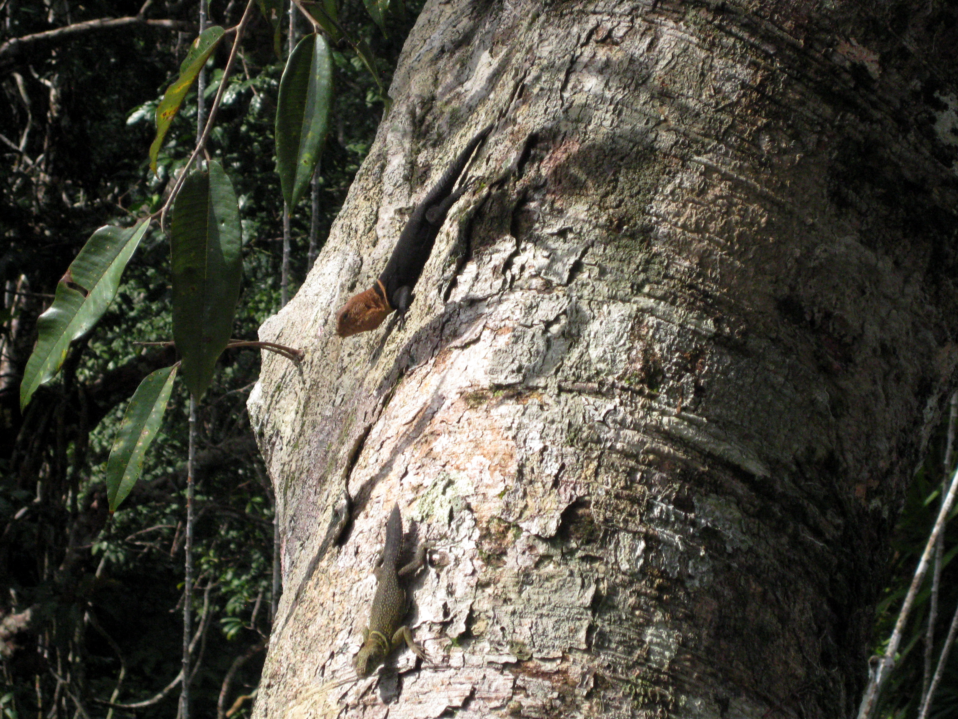 A sexually mature male and female/juvenile Tropical Thorntail Iguana (Amazon Thorntai Iguana)in the Iquitos region of Peru.